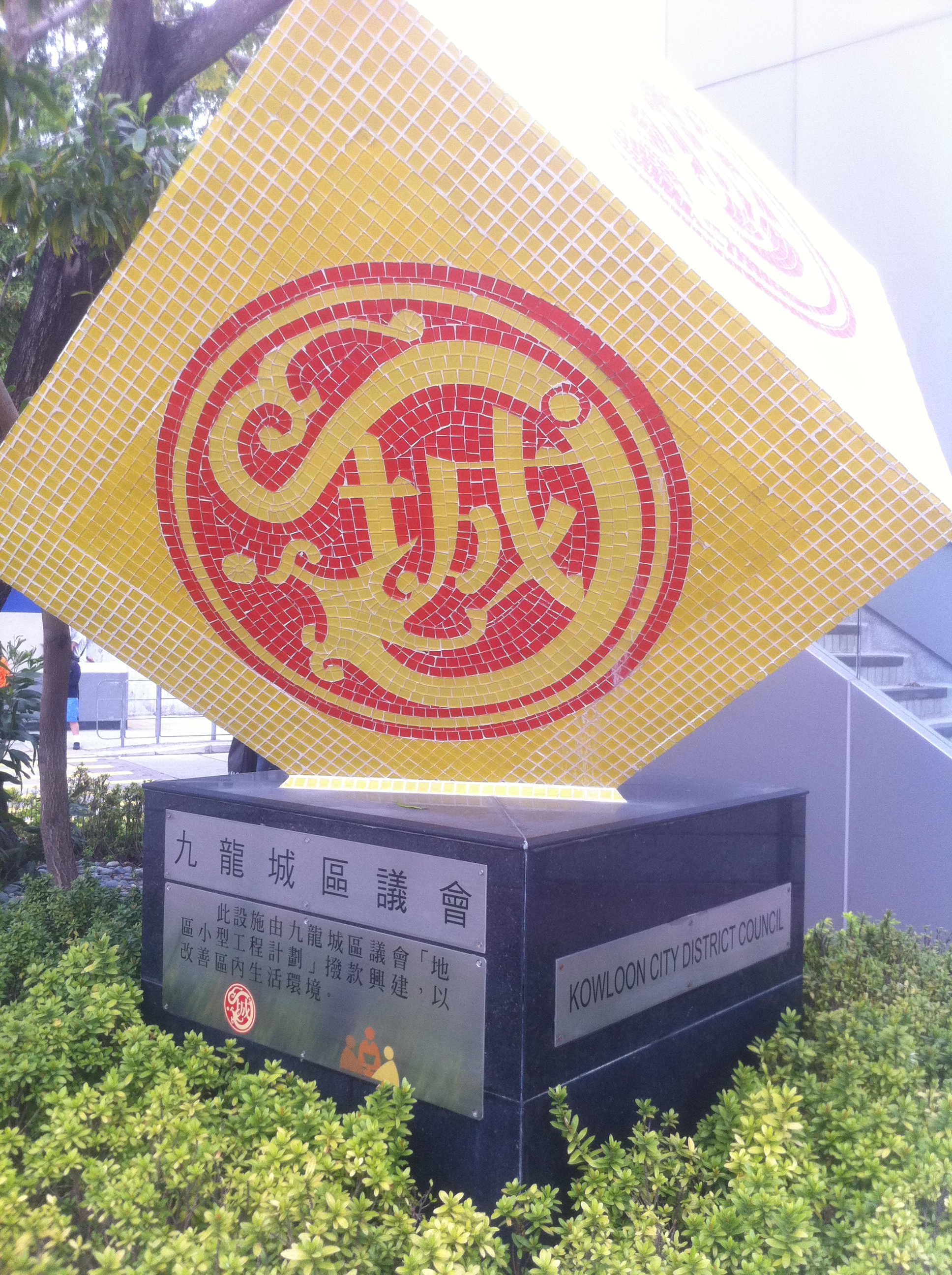 Kln Tong 多福道 To Fuk Road Kowloon City District Council